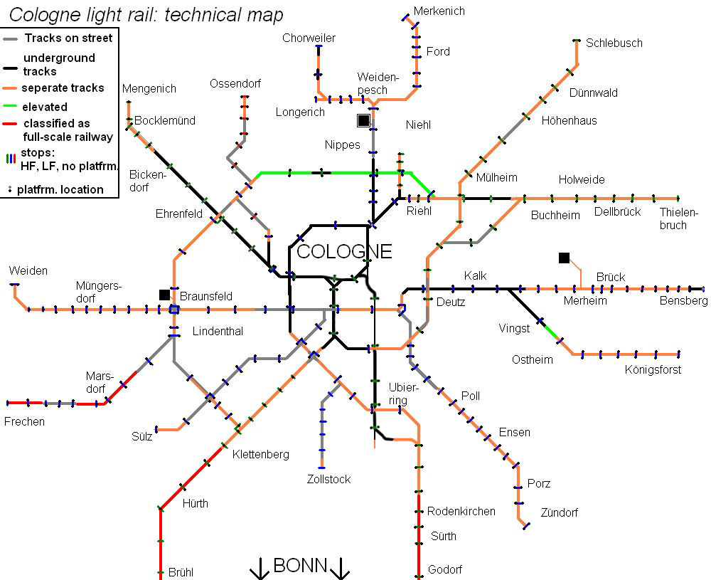 Technical route map of the Cologne lightrail network